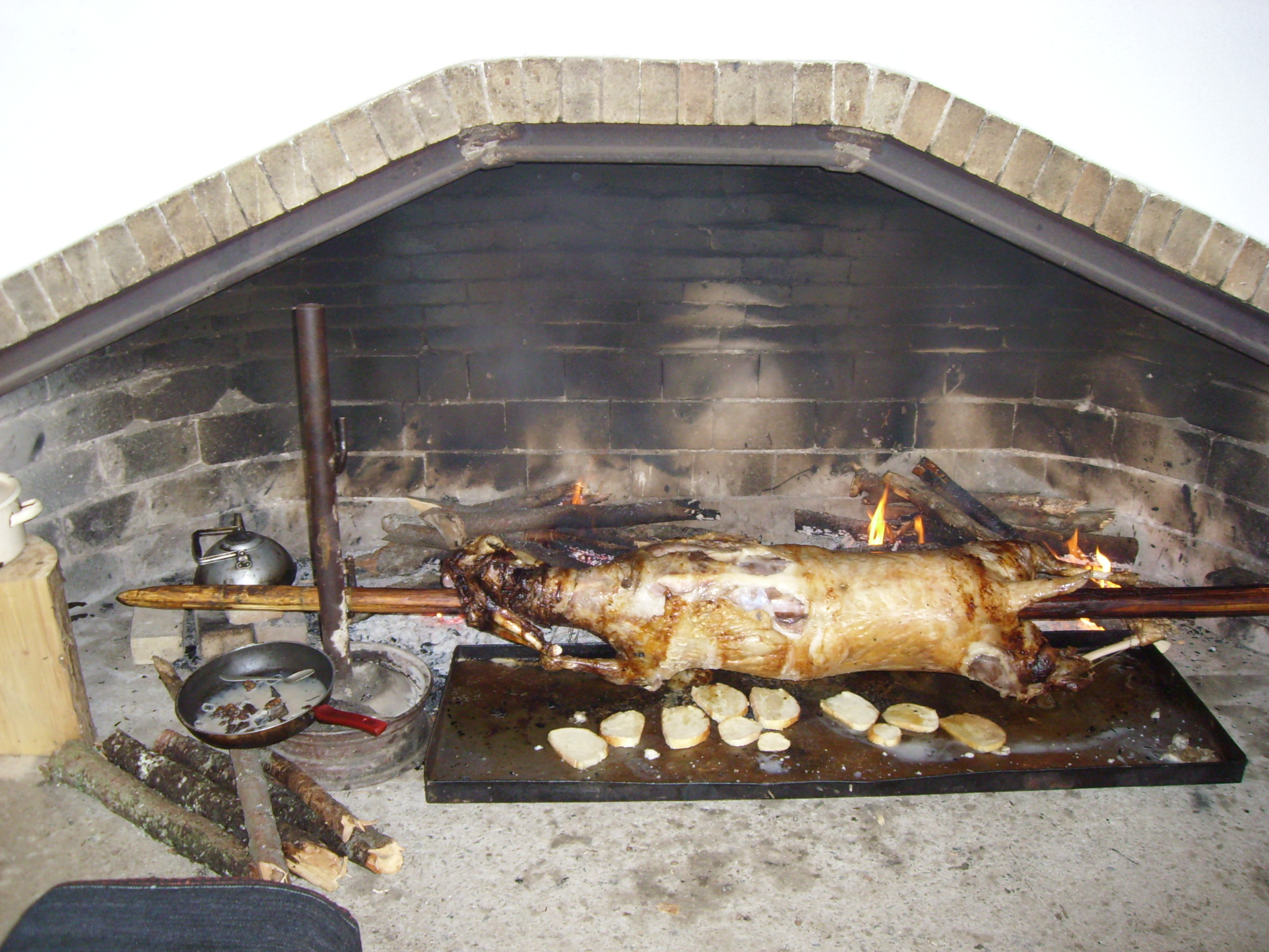 Cheverme ot Rodopite- Barbecued hogget (lamb) of spit